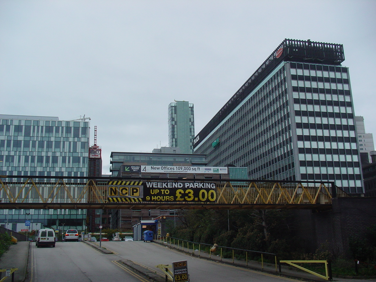 Car park entrance and buildings as seen from Pall Mall, Liverpool, England.